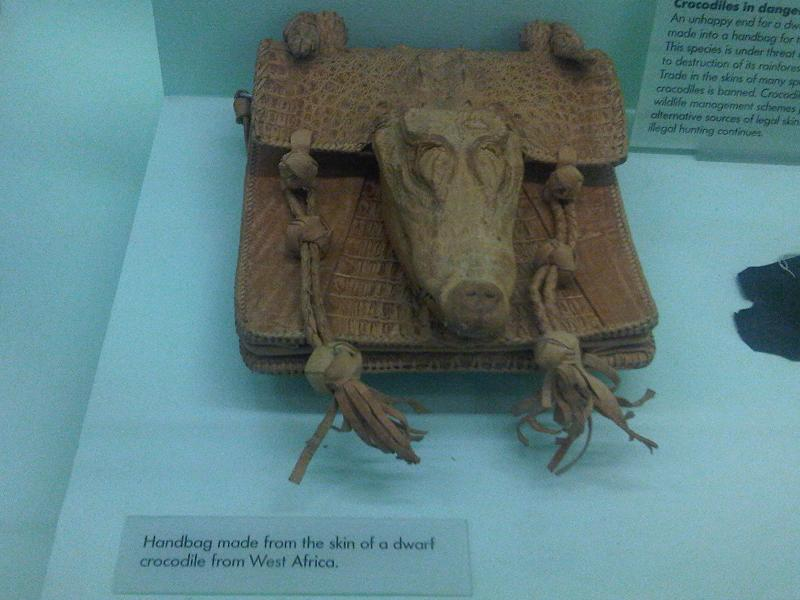 Handbag made from dwarf crocodile (Osteolaemus tetraspis) skin at the Natural History Museum in London, England.